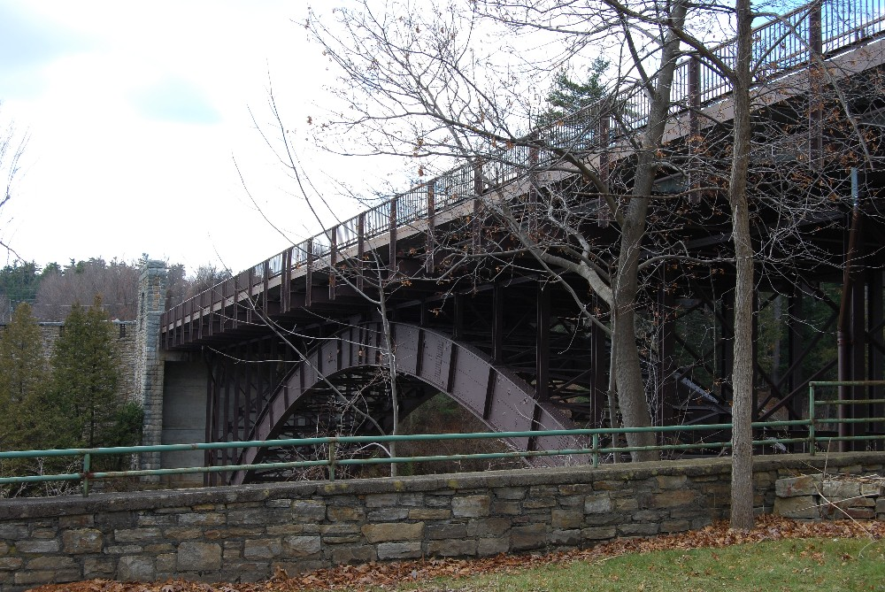 Ausable Chasm Bridge, New York State